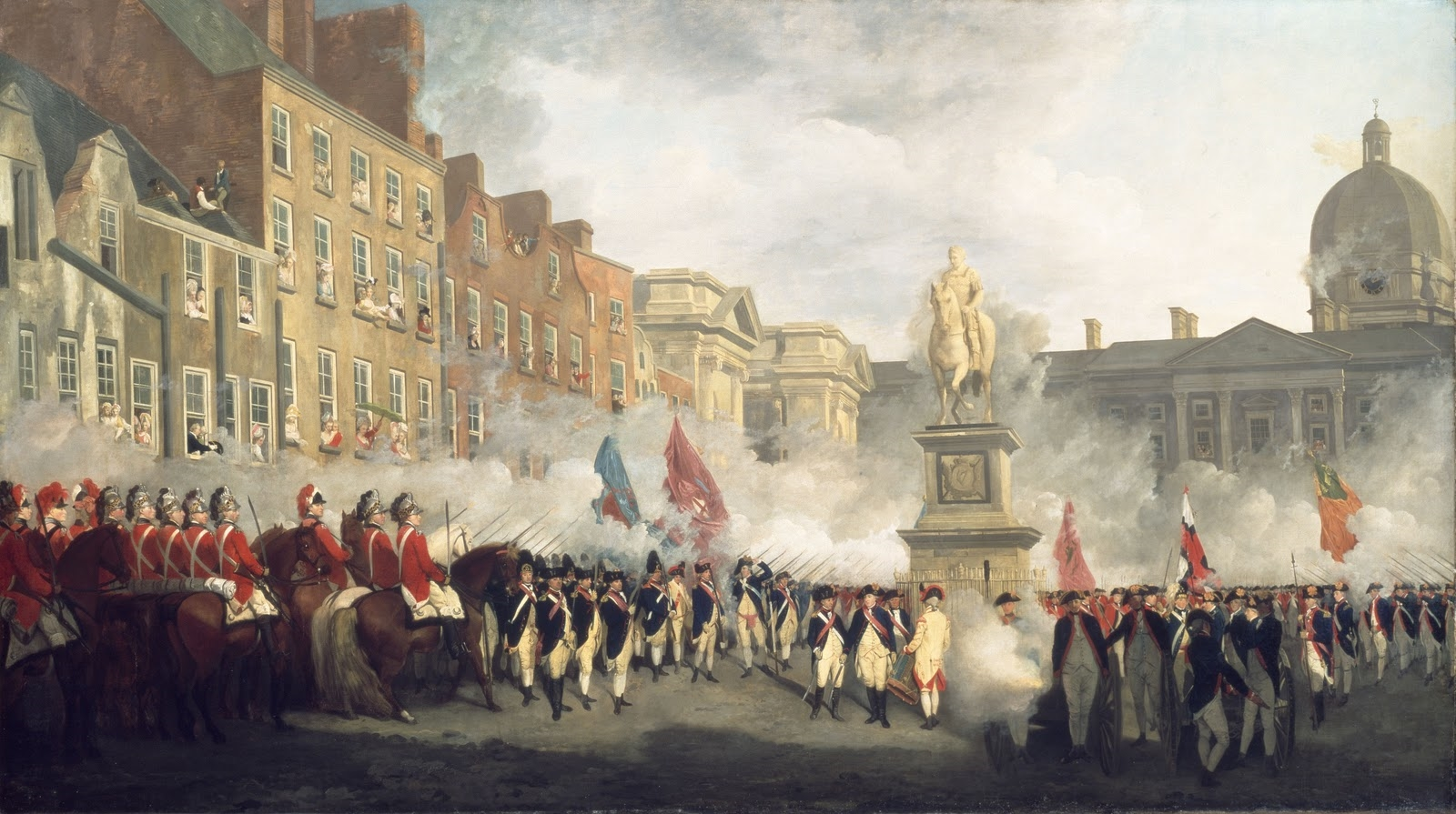 "The Dublin Volunteers on College Green, 4th November 1779." Portrait by Francis Wheatley of the Dublin Volunteers on College Green, Dublin.